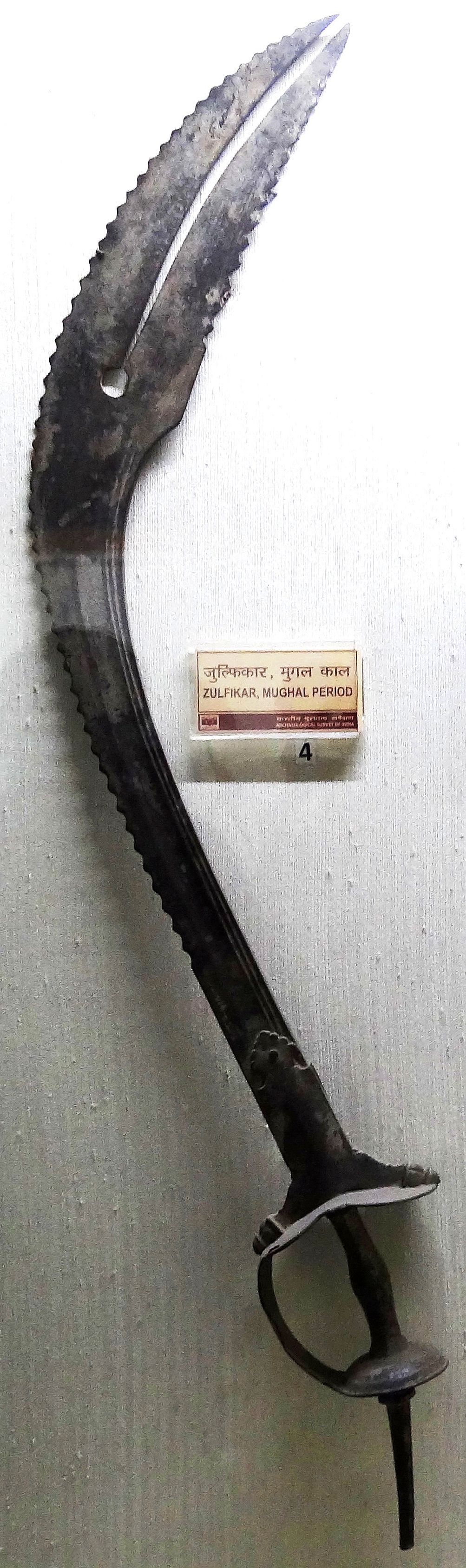 Zulfikar